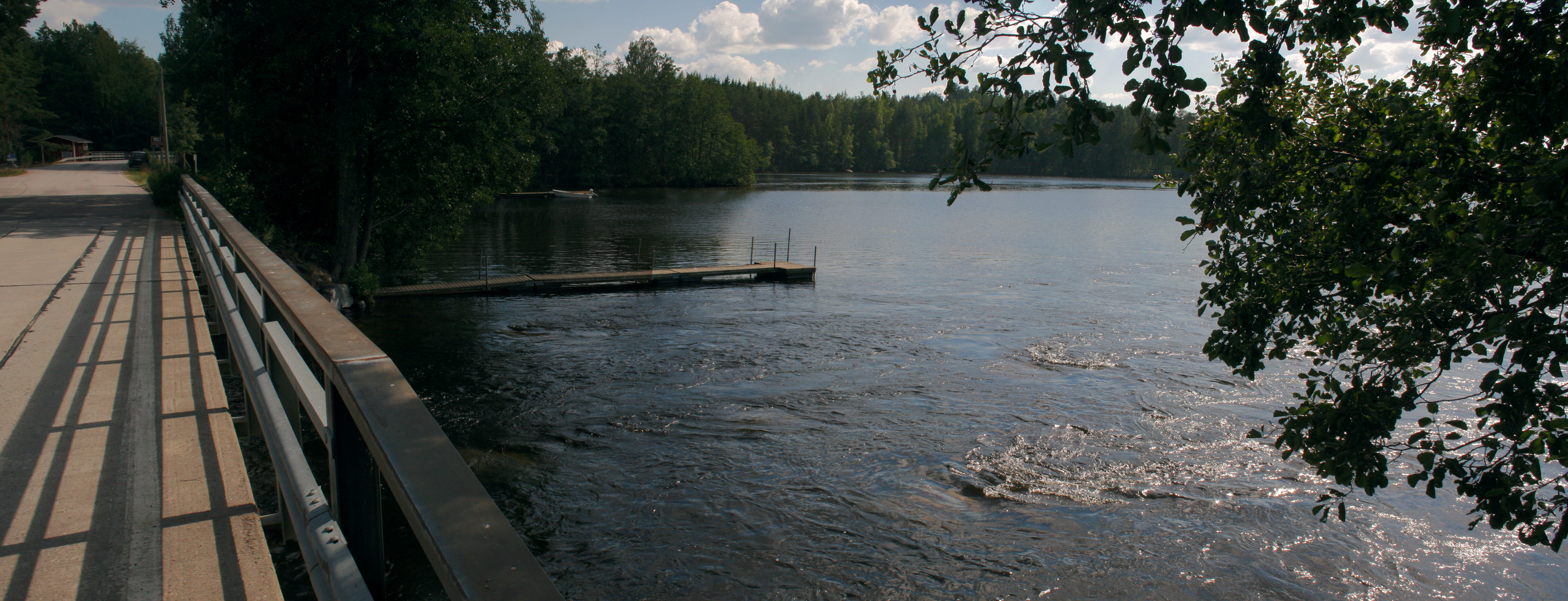 Lake Tarhavesi in Mäntyharju, Finland, small rapid Miekankoski